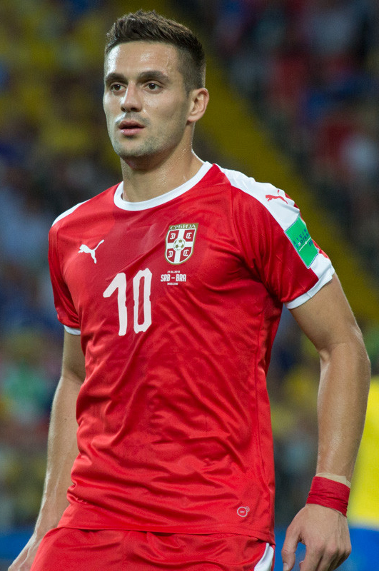 Serbian footballer Dušan Tadić on 27 June 2018, during the 2018 FIFA World Cup group stage match between Serbia and Brazil.